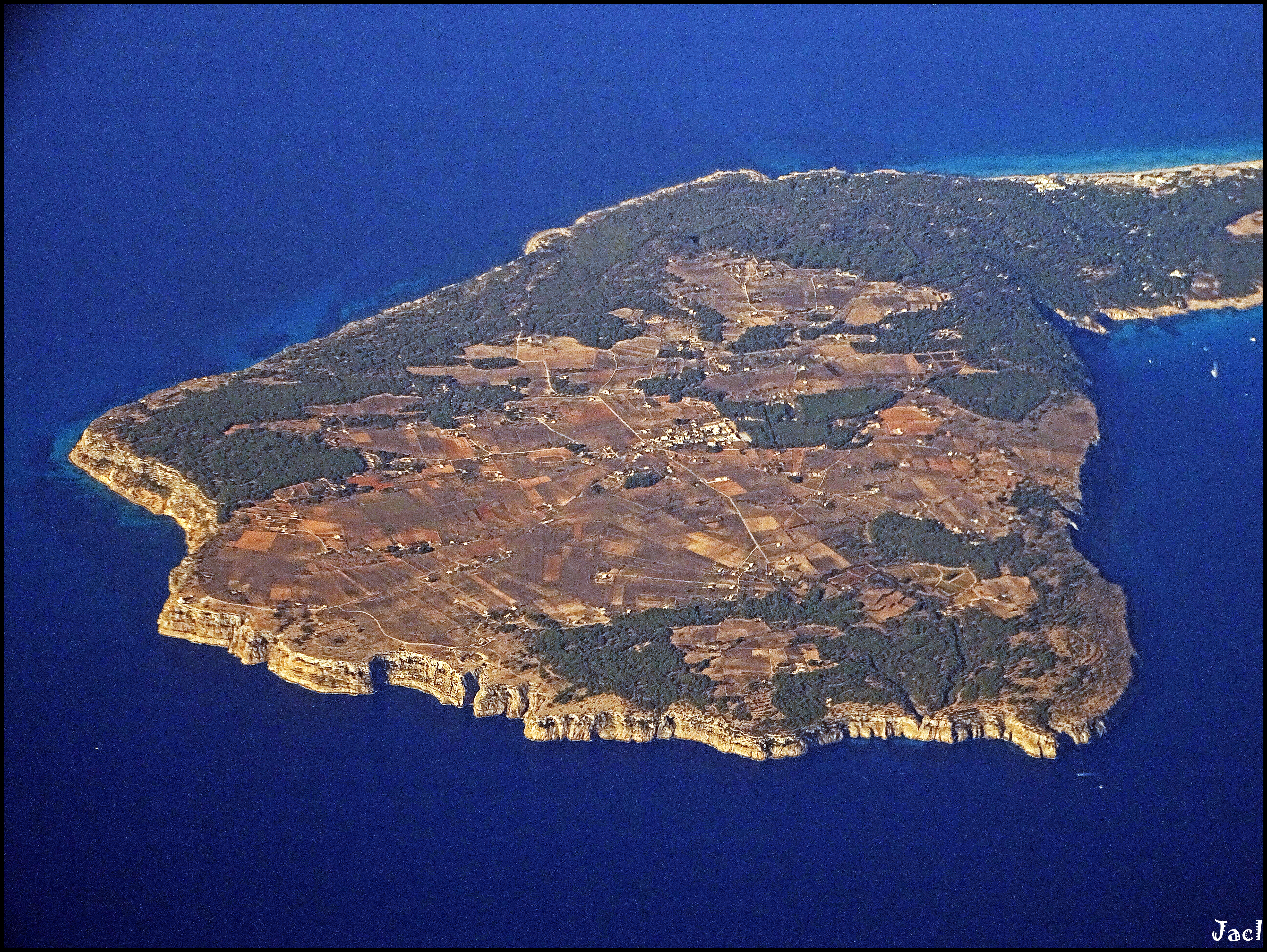 Aerial view of Formentera from flight Malta-Madrid